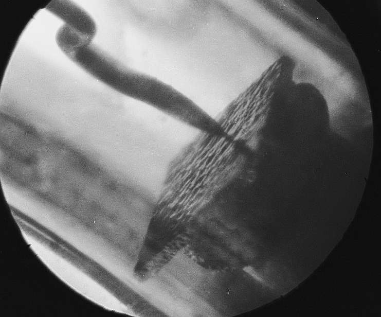 Point-contact diode, inner structure. The rectangle is n-type semiconductor, and is about half a millimeter wide. The photo is taken under a microscope